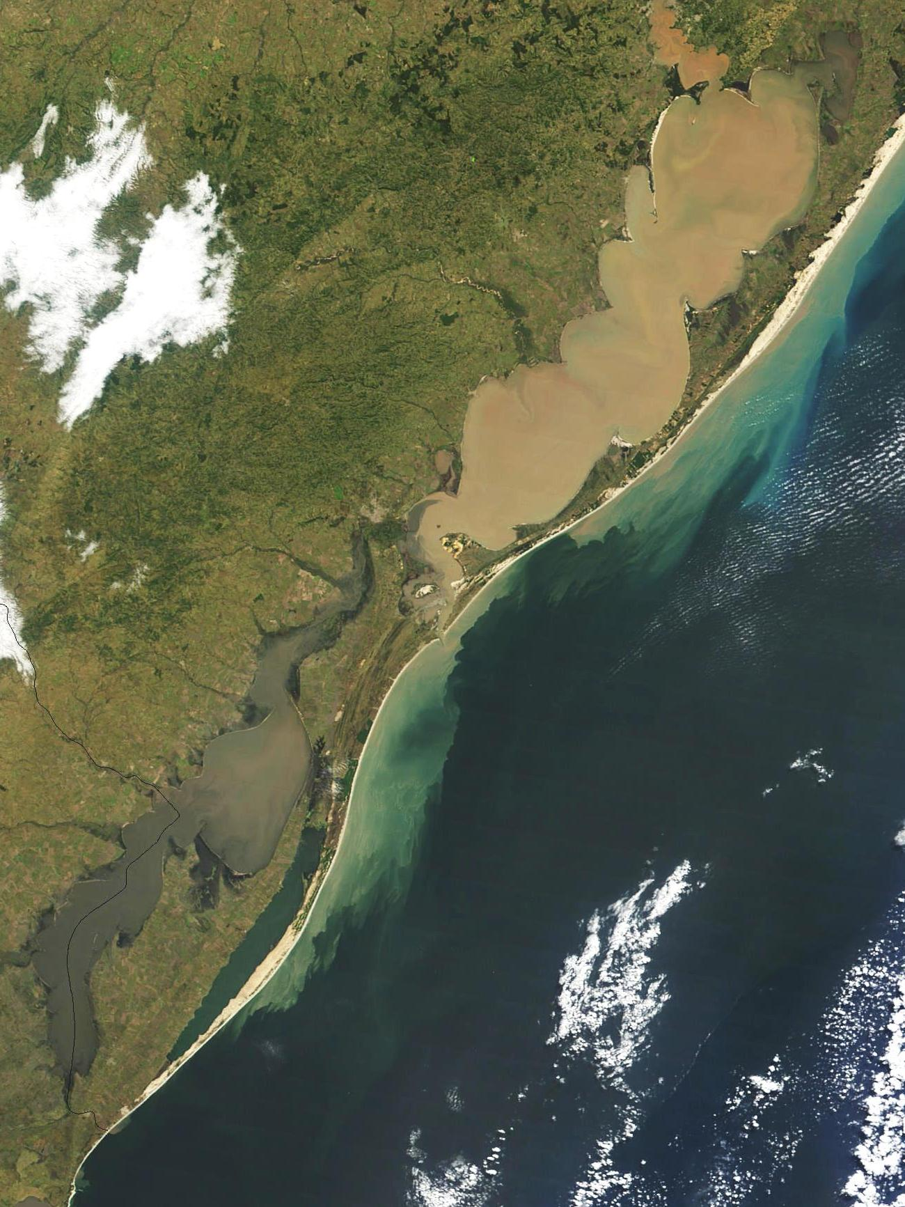 Lagoa dos Patos is the largest lagoon in Brazil, in the state of Rio Grande do Sul.